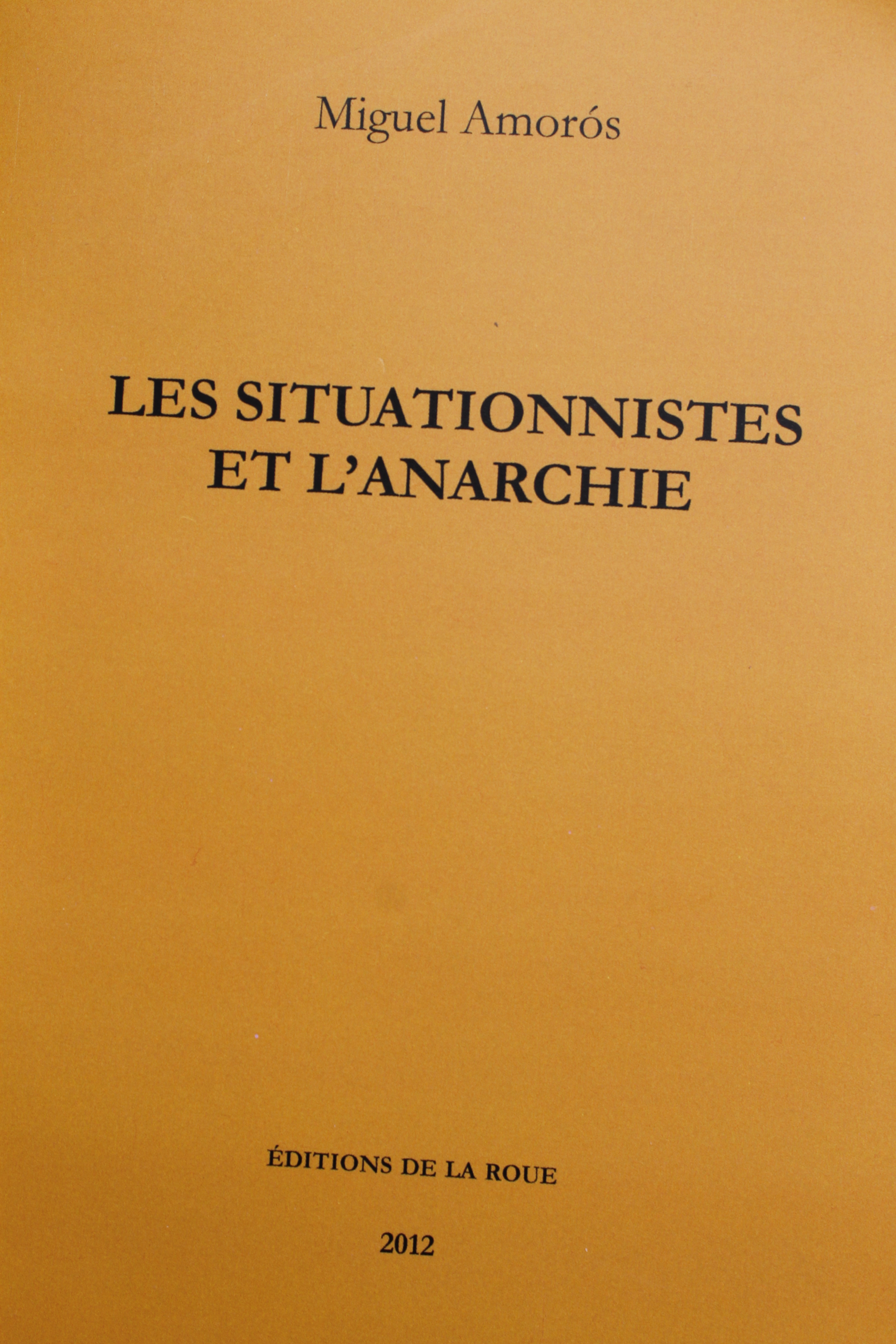 Miguel Amorós, Les Situationnistes et l'Anarchie